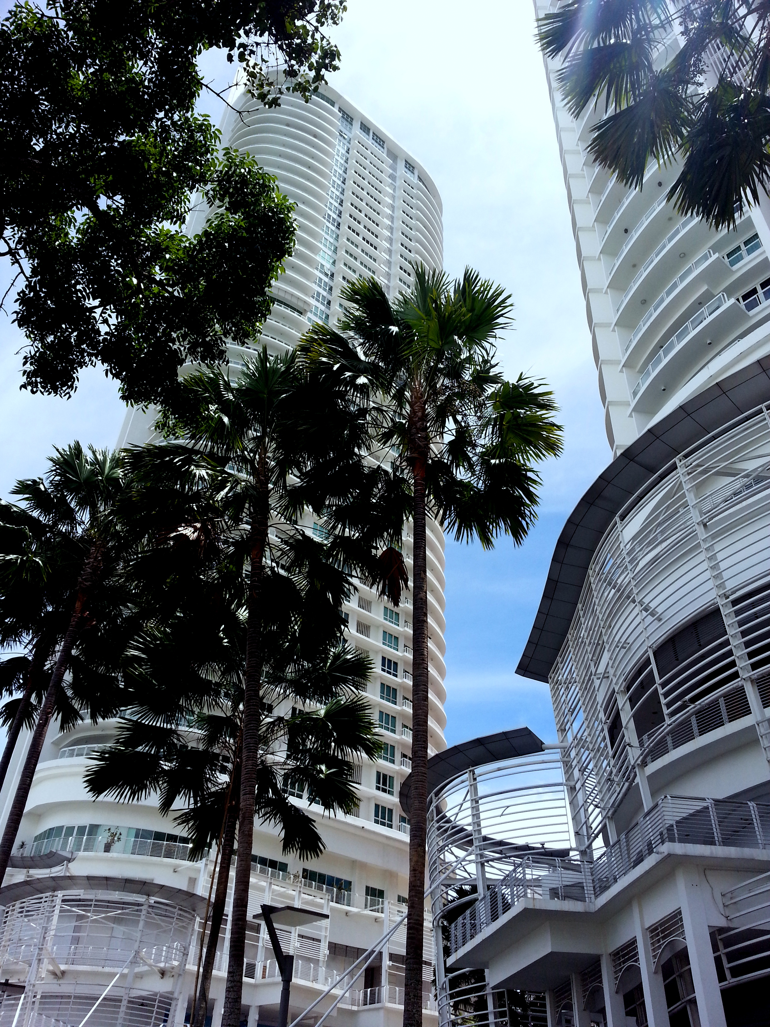 The Gurney Paragon Towers at Gurney Drive in George Town, Penang, Malaysia.